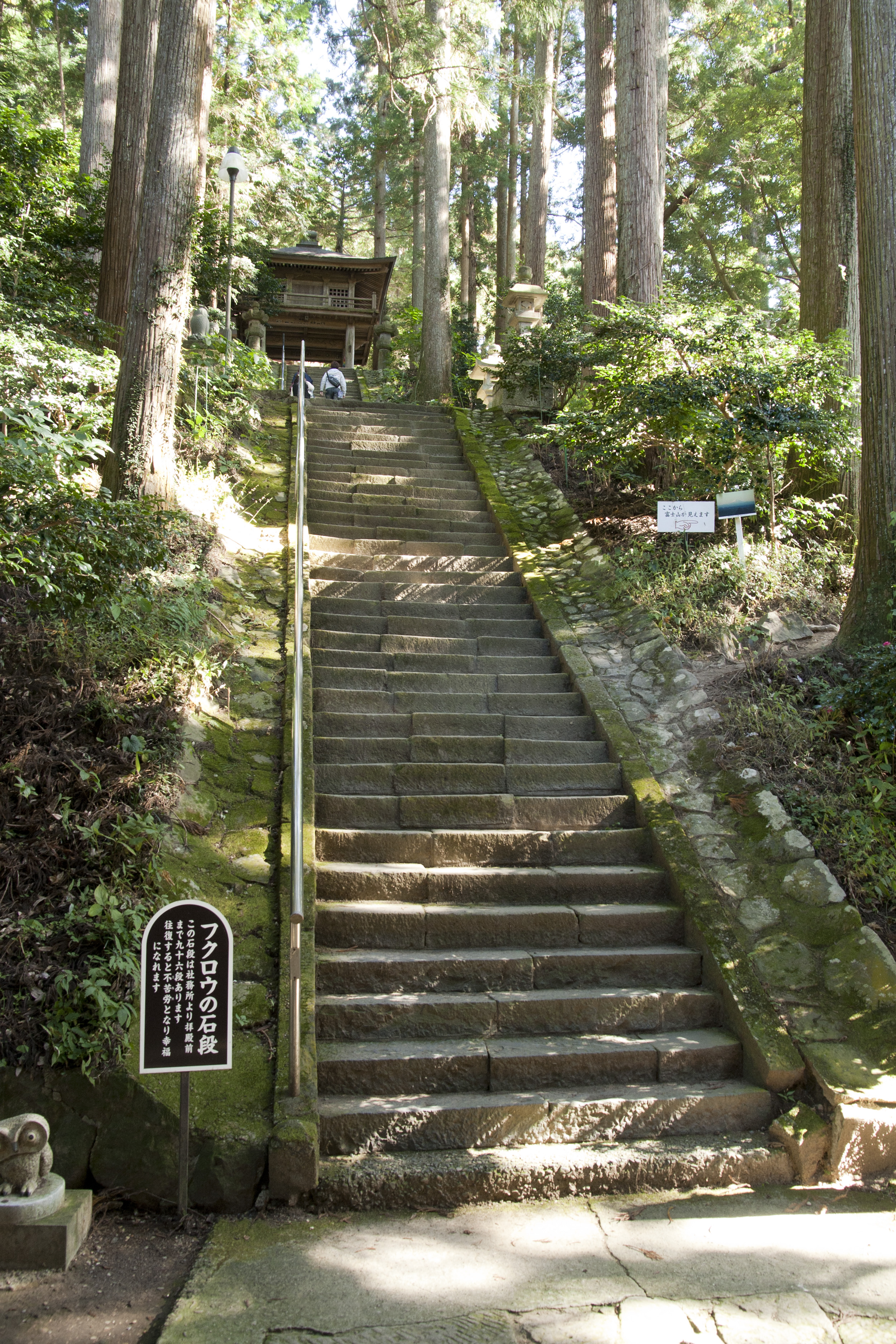 Torinoko-Sanjo Shrine（鷲子山上神社 とりのこさんじょうじんじゃ）, Ibaraki and Tochigi Prefectures, Japan